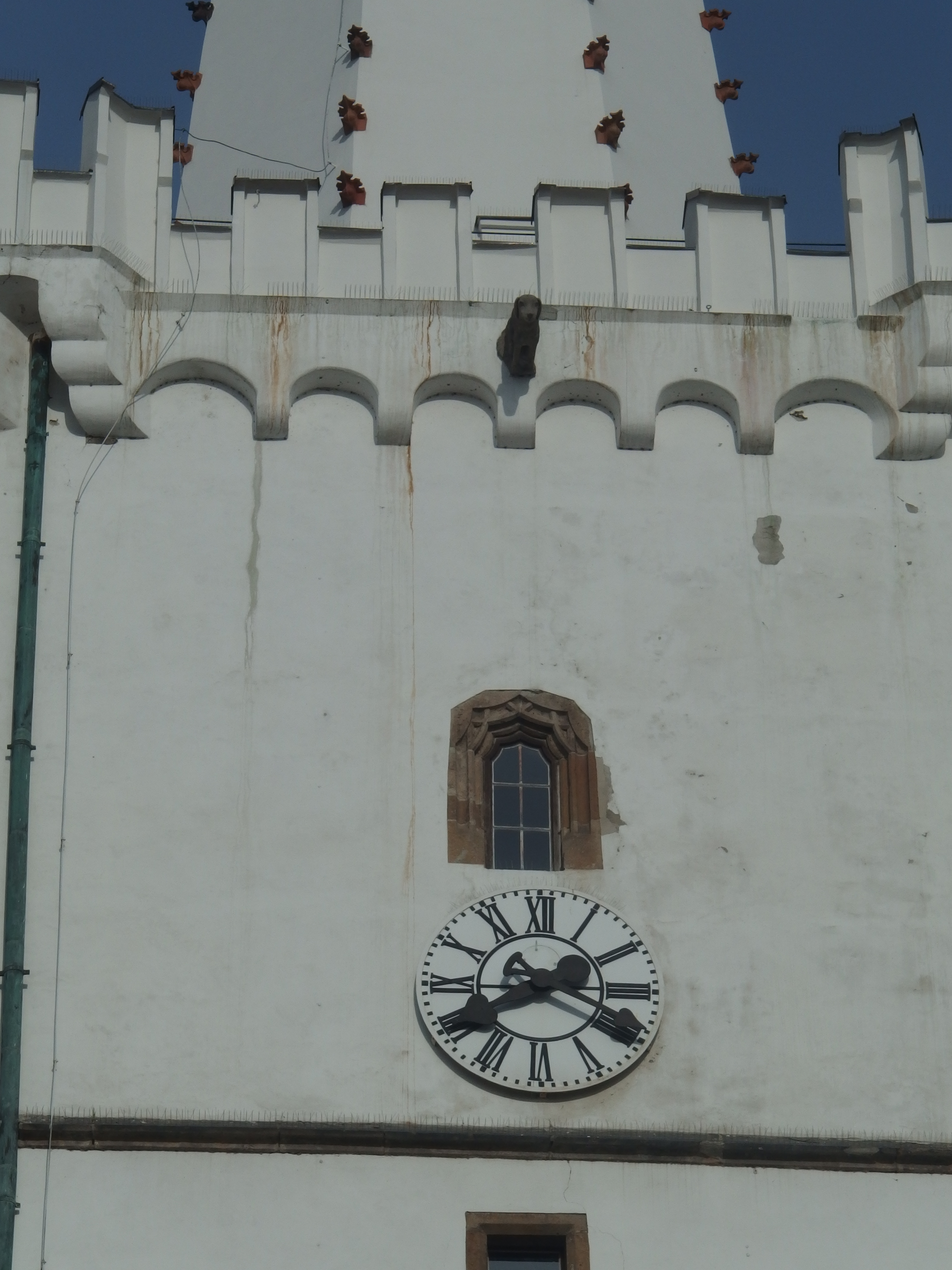 Kadaň, Chomutov District, Czech Republic. Town hall.